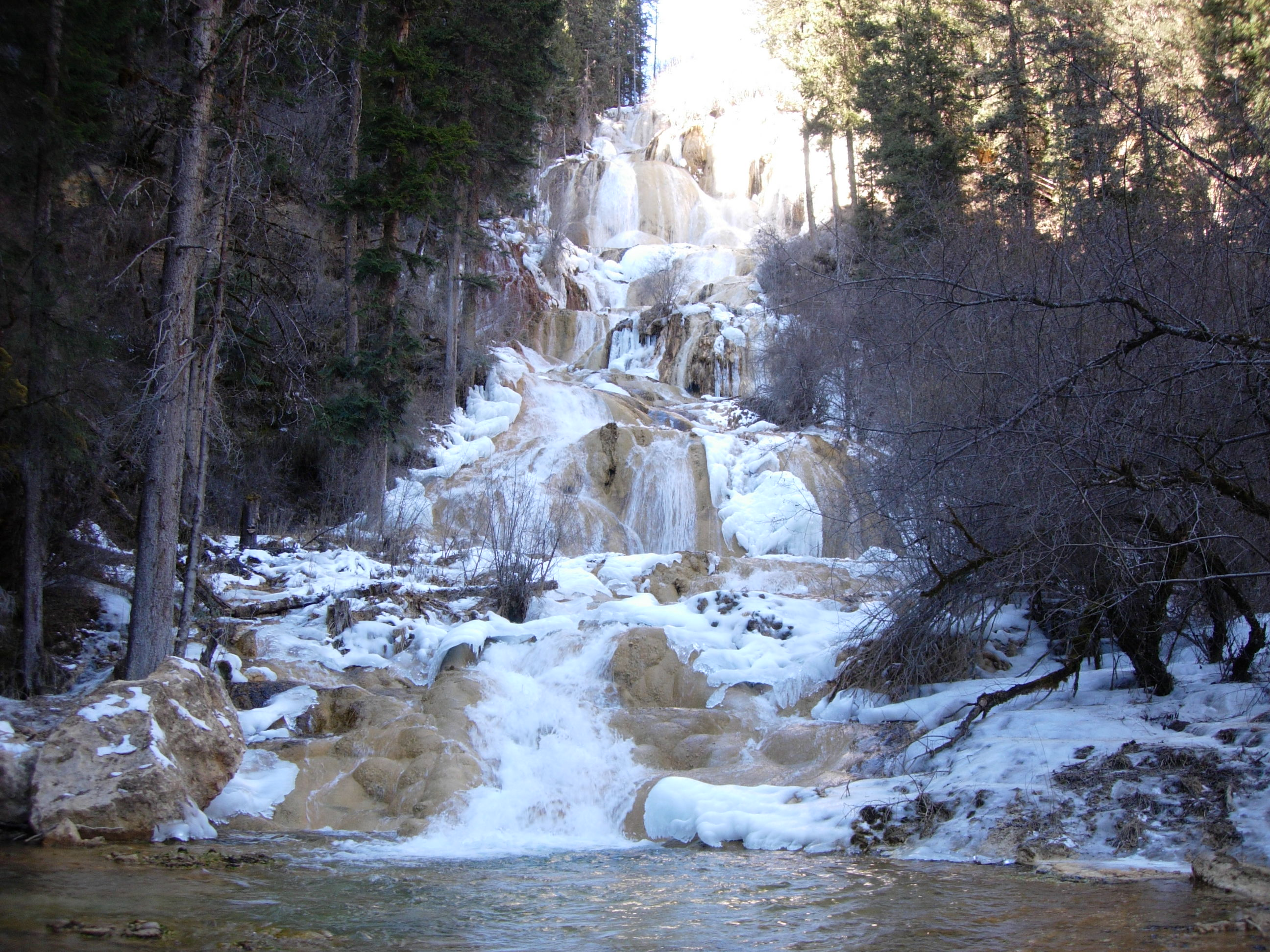 Zhaga Waterfall 牟尼沟扎嘎瀑布photo by Memes